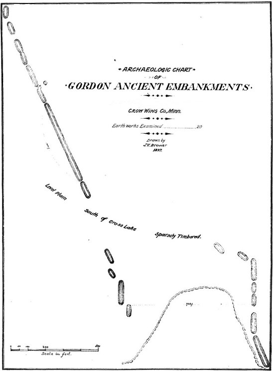 Survey map of the Gordon Embankments, Crow Wing County, Minnesota, USA. Hand-drawn by Jacob V. Brower and published in 1901.